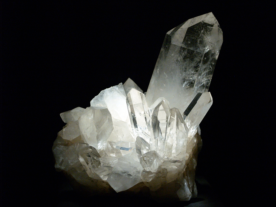 Quartz Hot Springs, Arkansas Wikipedia Loves Art at the Houston Museum of Natural Science This photo of item # [1] at the Houston Museum of Natural Science was contributed under the team name "Assignment_Houston_One" as part of the Wikipedia Loves Art project in February 2009. Houston Museum of Natural Science The original photograph on Flickr was taken by sulla55—please add a comment to the original Flickr page whenever a use has been made on Wikipedia or another project. Project galleries on Flickr: this institution, this team